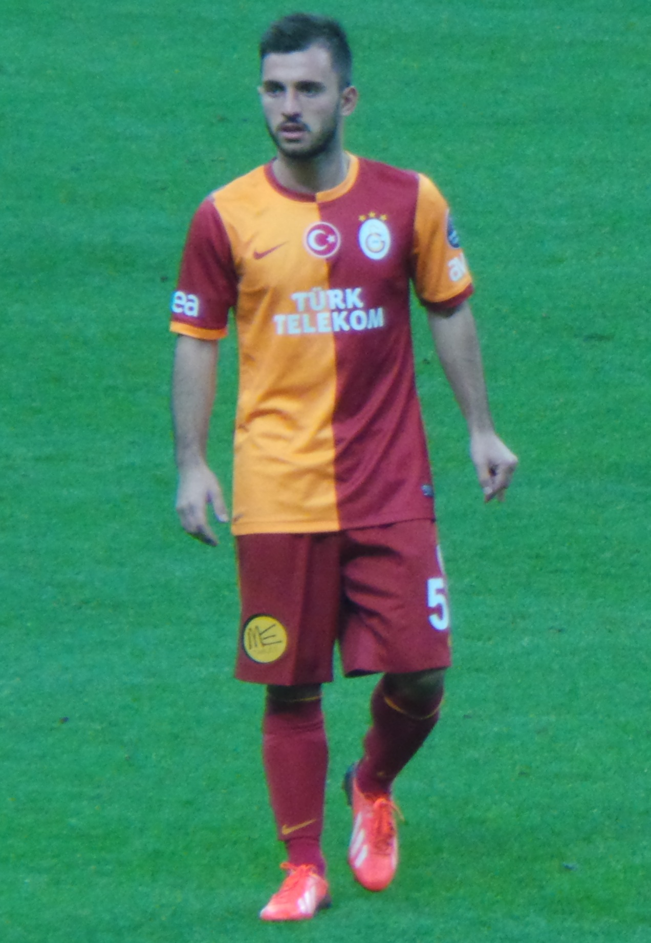 Emre Çolak playing against Konyaspor